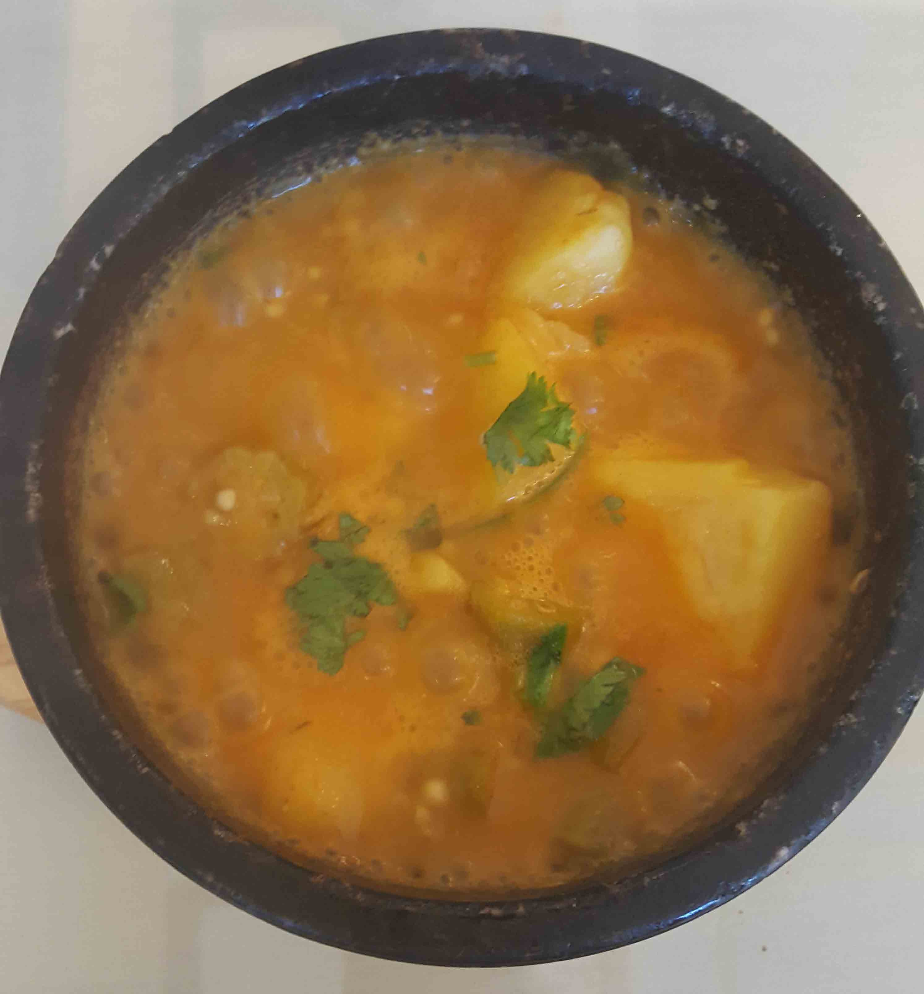 Saltah in Virginia